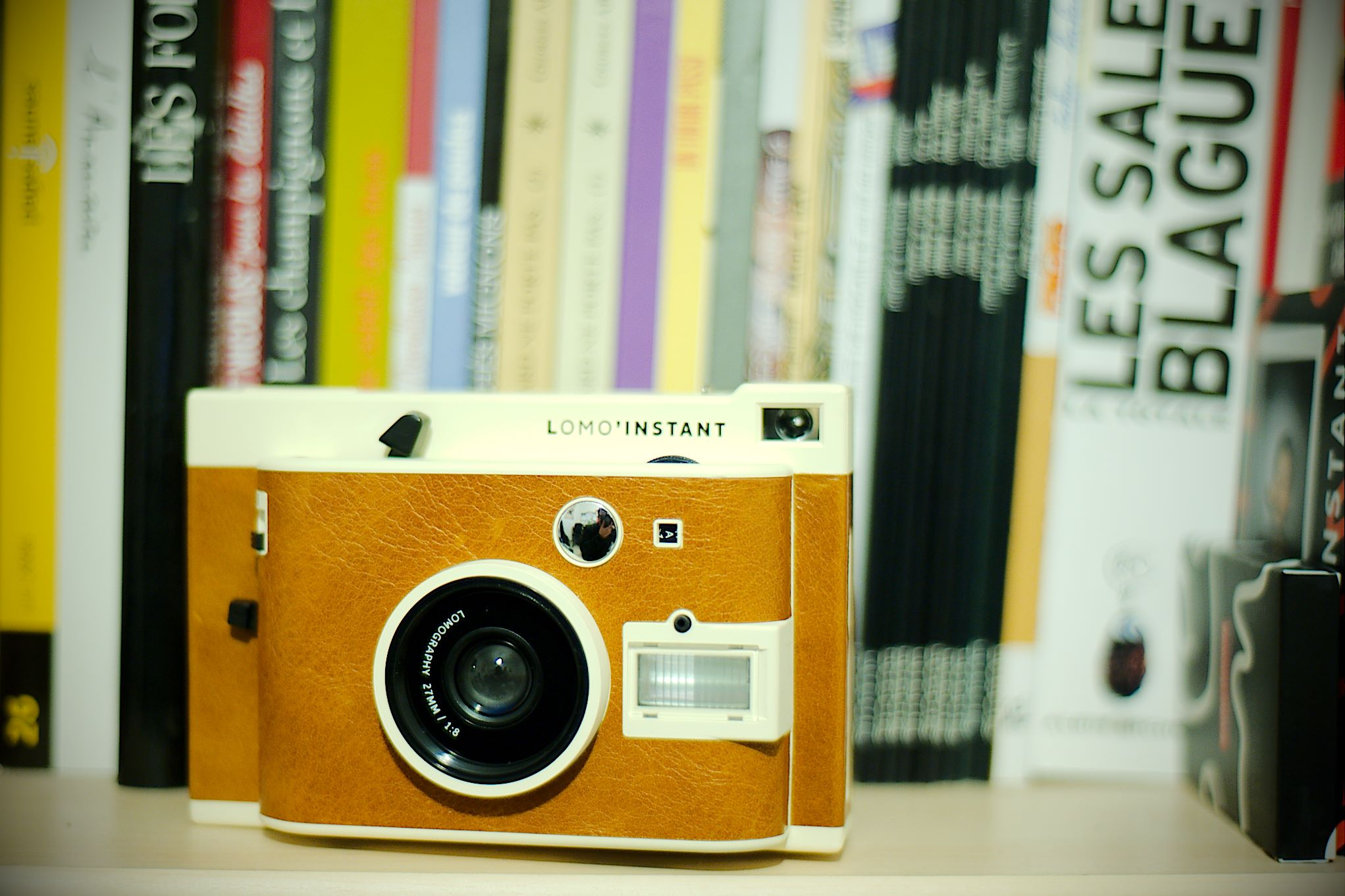 A Lomo 'Instant camera